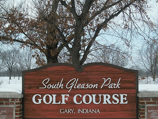 Gleason Golf Course in Gary, Indiana at Winter time